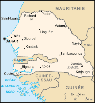 French map of Senegal